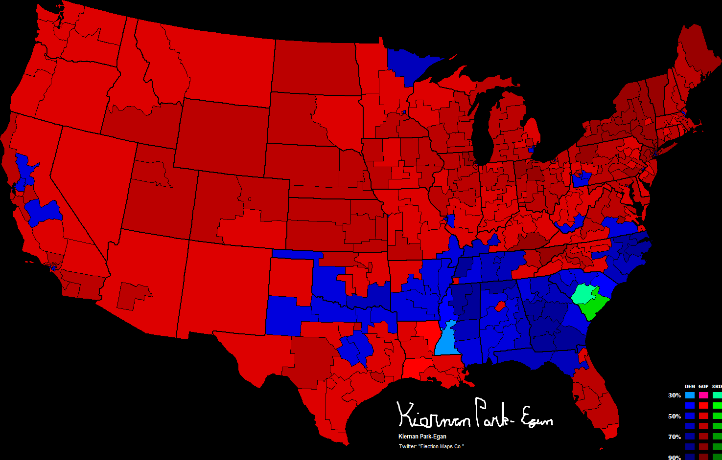 The results of the 1956 U.S. Presidential Election by Congressional District